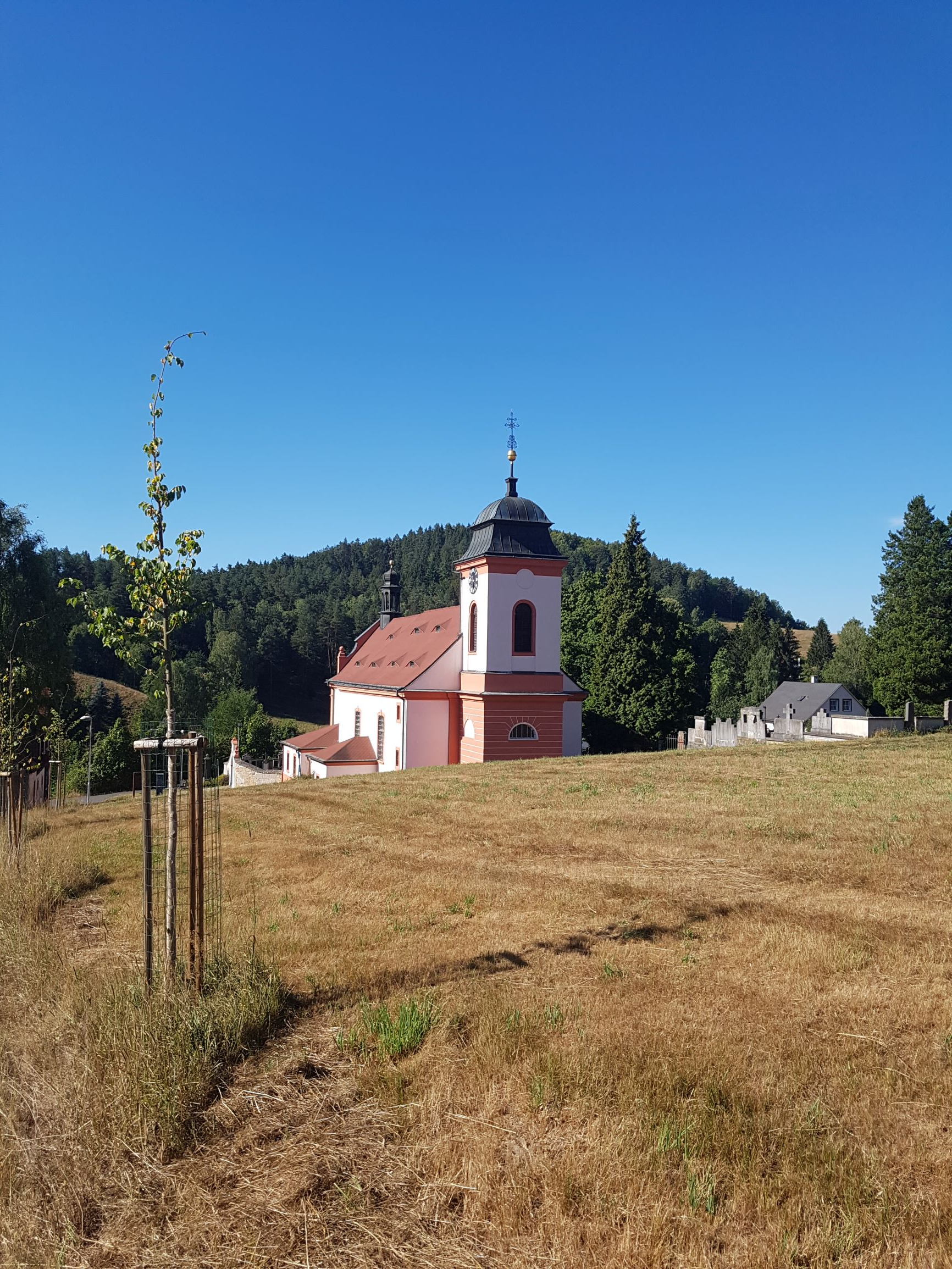 Church of Saint John of Nepomuk in Jetřichovice, Czech Republic